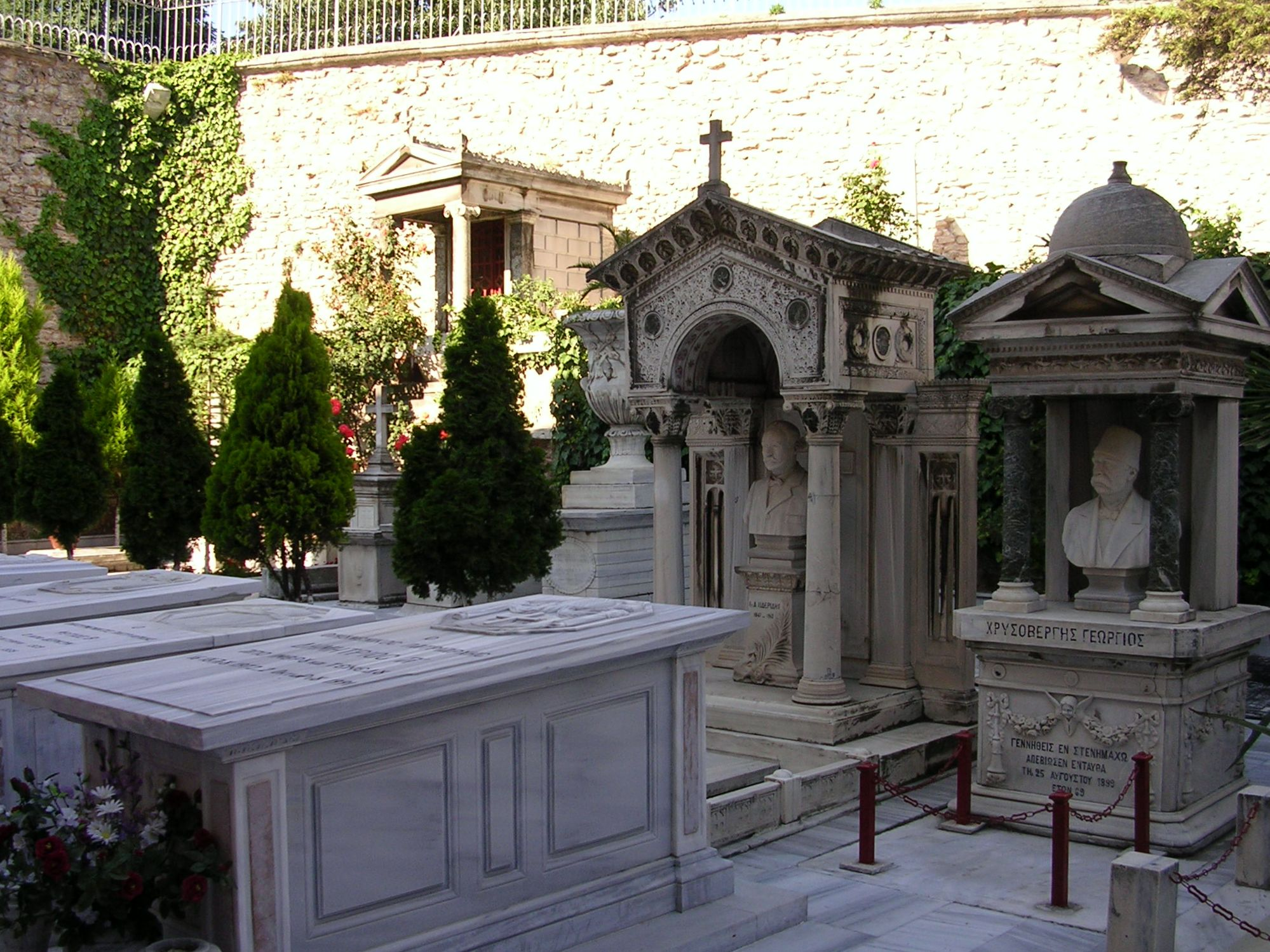 The cemetery of the Ecumenical Patriarchs of Constantinople and major benefactors in the Monastery of the Zoodochos Pigi (Fount of Life) at Balukli (Balikli), Istanbul Turkey.